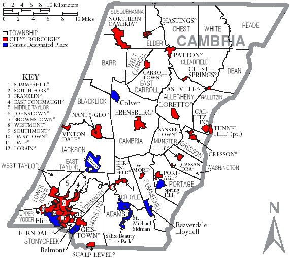 Map of Cambria County, Pennsylvania, United States with township and municipal boundaries